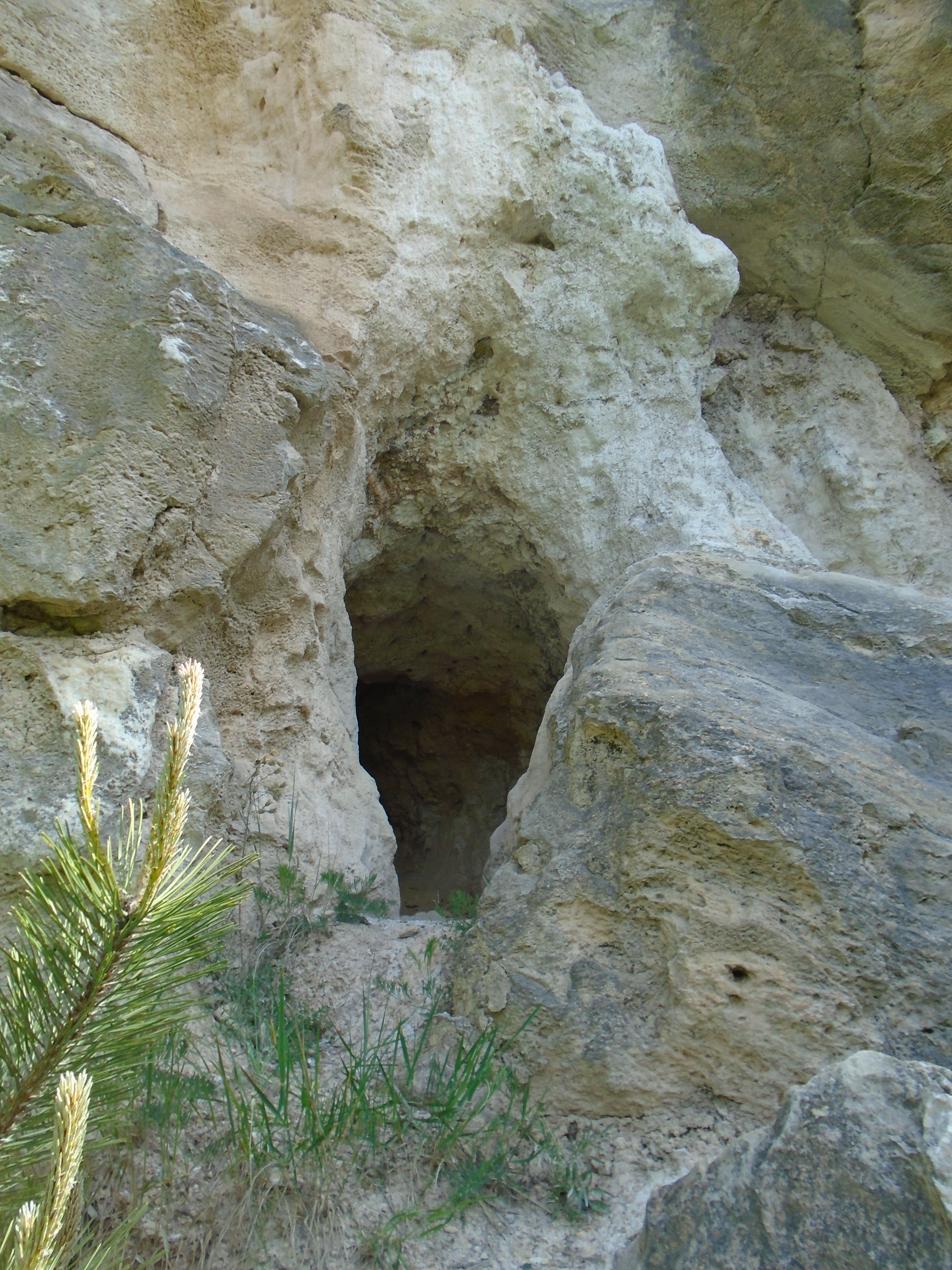 Entrance of Keleti quarry No 12 Cave.